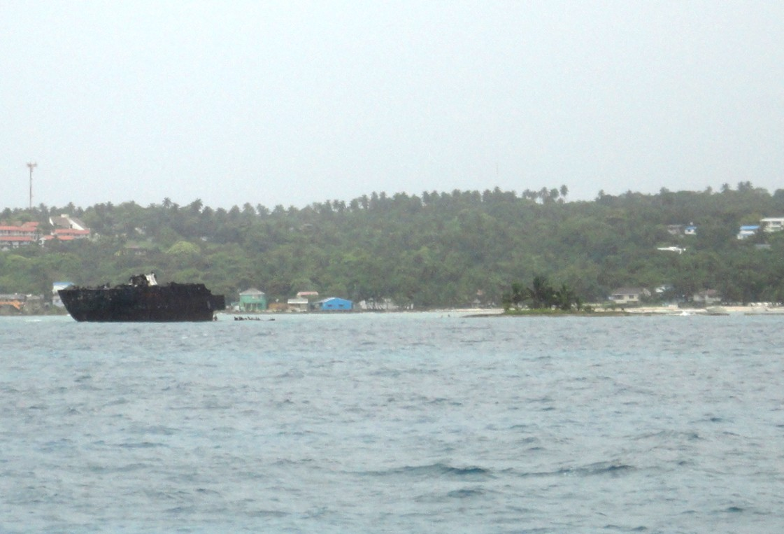 Rocky Cay (Rose Cay) from east